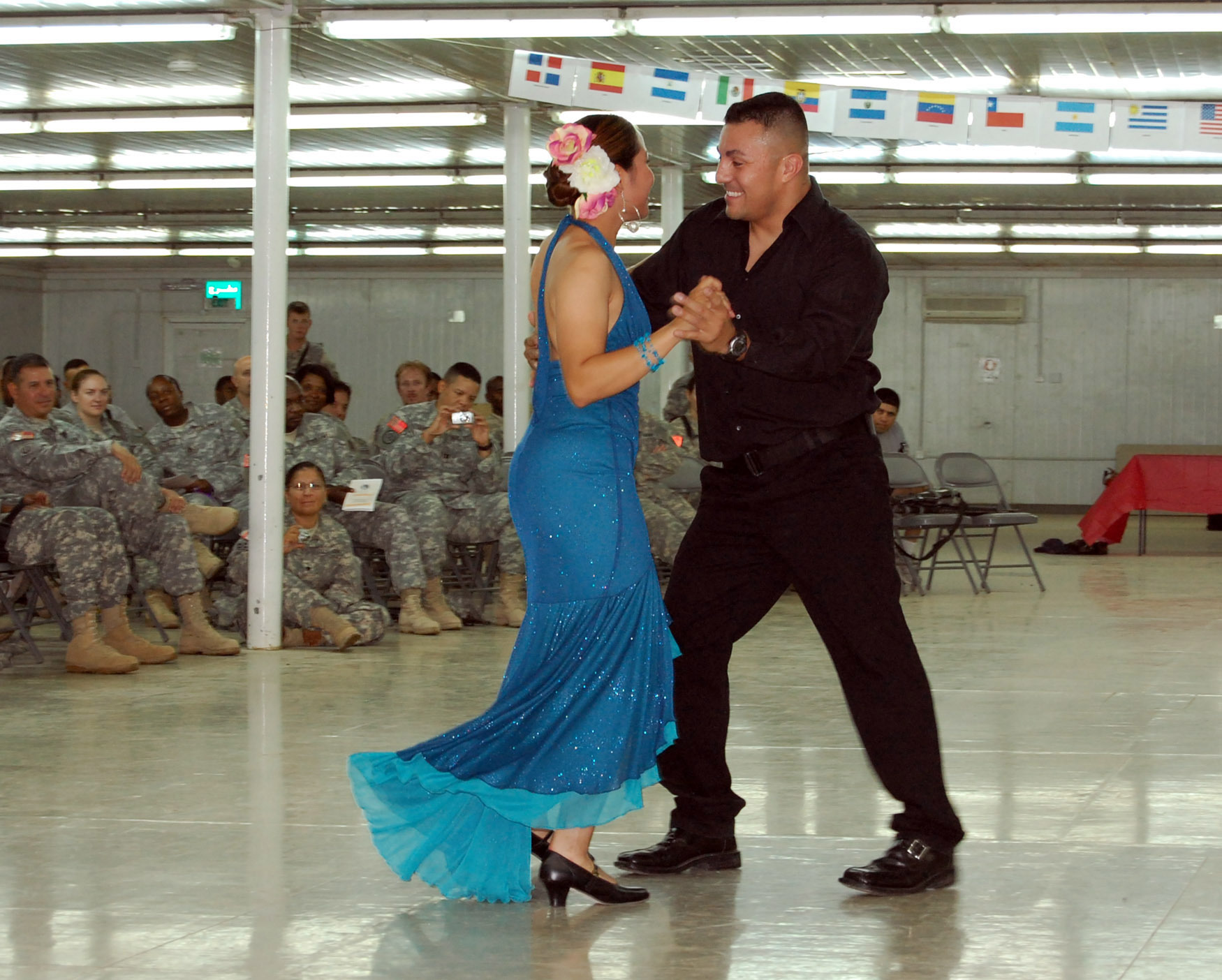 Sgt. Madeogarcia Elisan, equal opportunity representative, Headquarters Support Company from San Diego, and Sgt. 1st Class Luis Romero, force protection non-commissioned officer, Company B from New York City, both from the 404th Aviation Support Battalion, Combat Aviation Brigade, 4th Infantry Division, Multi-National Division - Baghdad, perform the Bachata dance during the CAB's Hispanic American Heritage Month Observance celebration on Camp Taji, Sept. 27, 2008. Soldiers from the brigade enjoyed an array of dances, music and authentic Hispanic cuisine at the celebration.